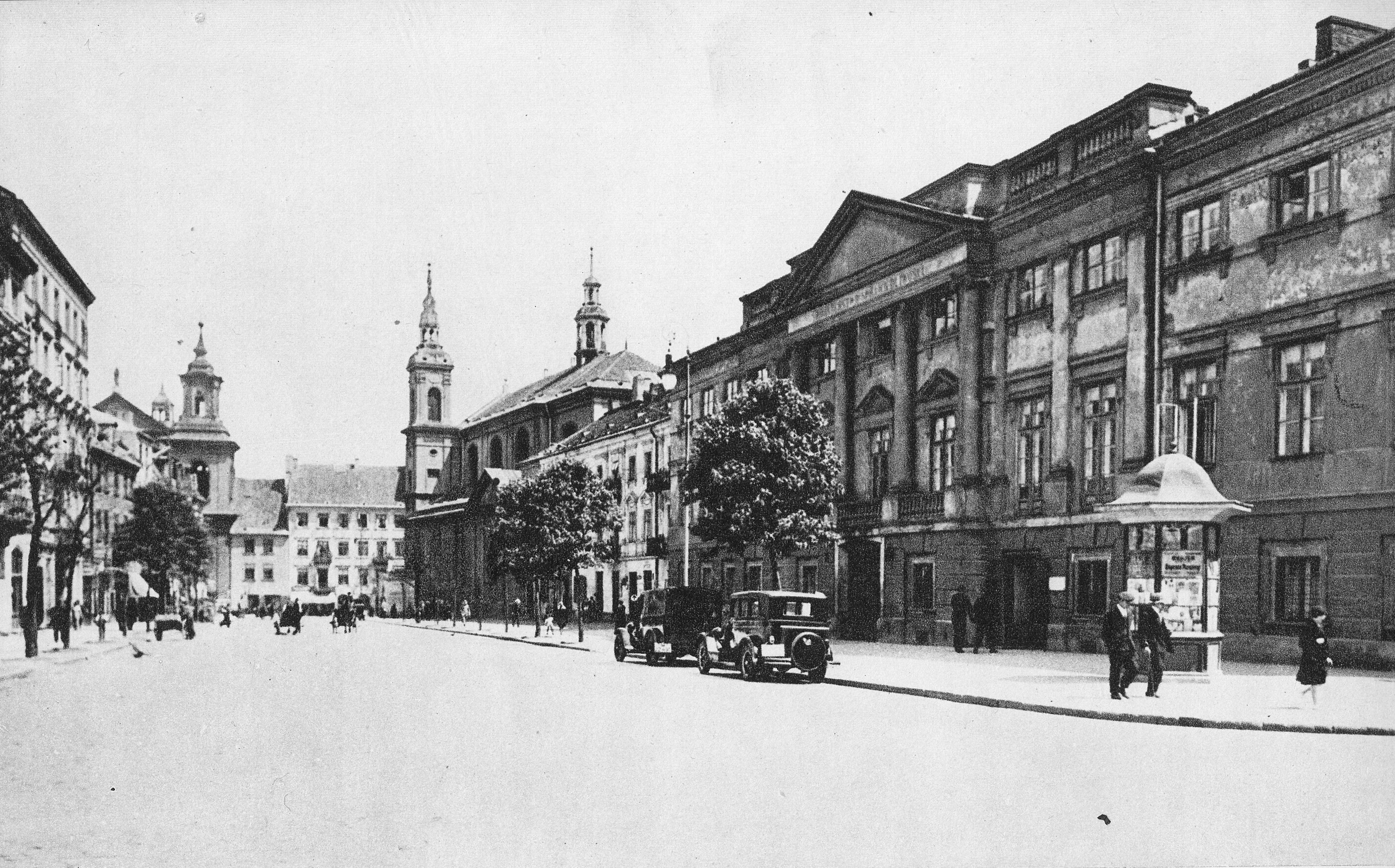 Długa Street in Warsaw, view towards Freta Street